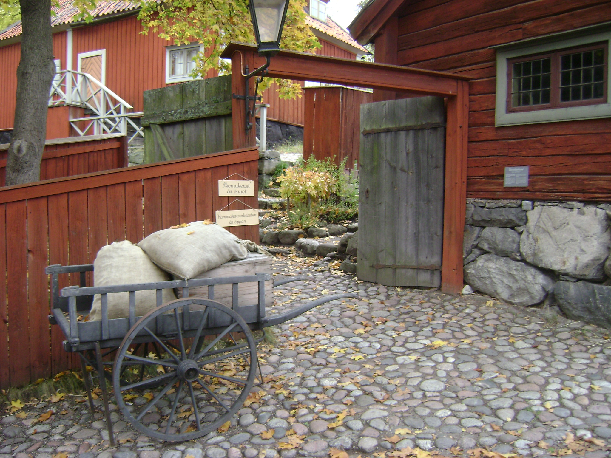 Sweden. Stockholm. Djurgården. Open air museum